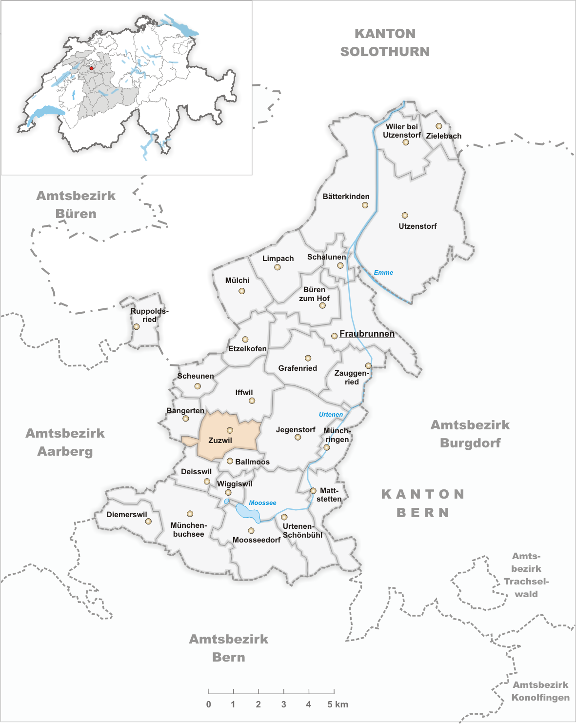 Municipality Zuzwil